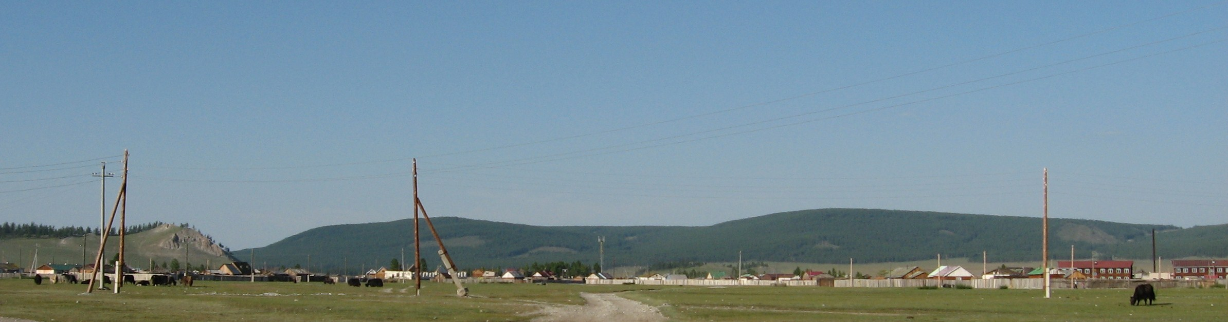 Hatgal, view from the National Park station